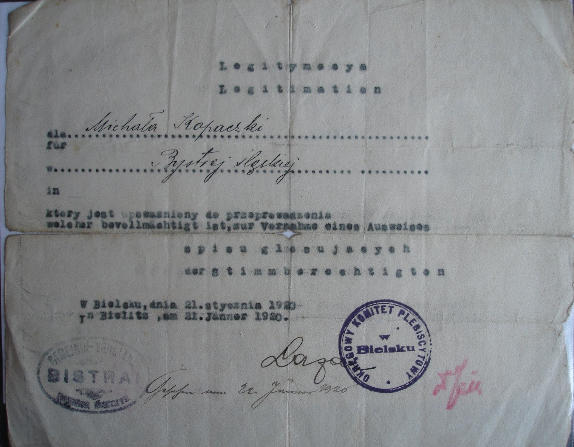 The legitamation from the unrealized plebiscite (Bielsko 1920)